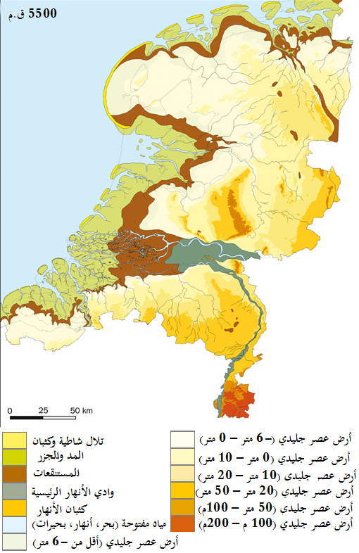 Palaeography of the Netherlands 5500 BC